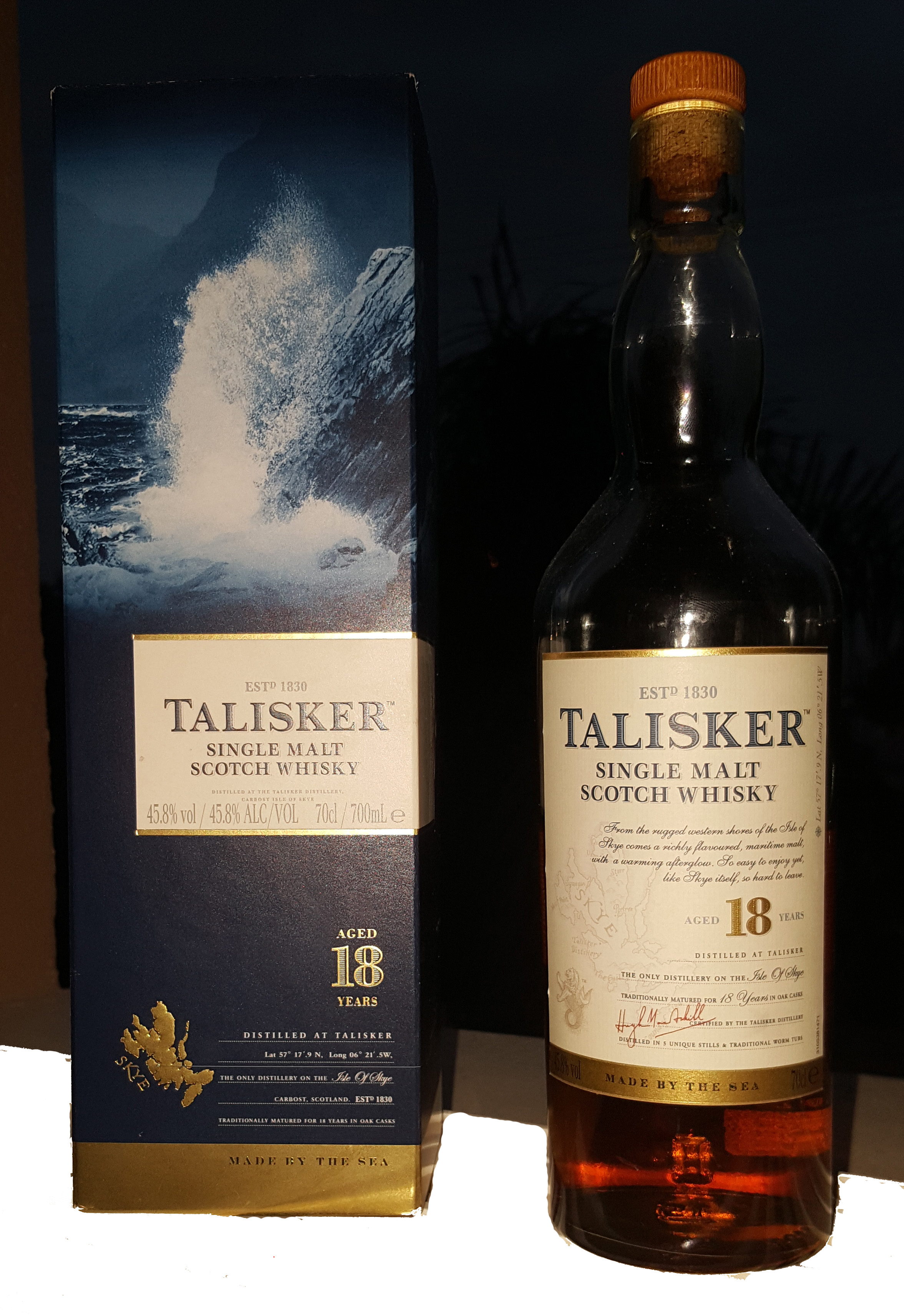 TALISKER 18 YEAR OLD